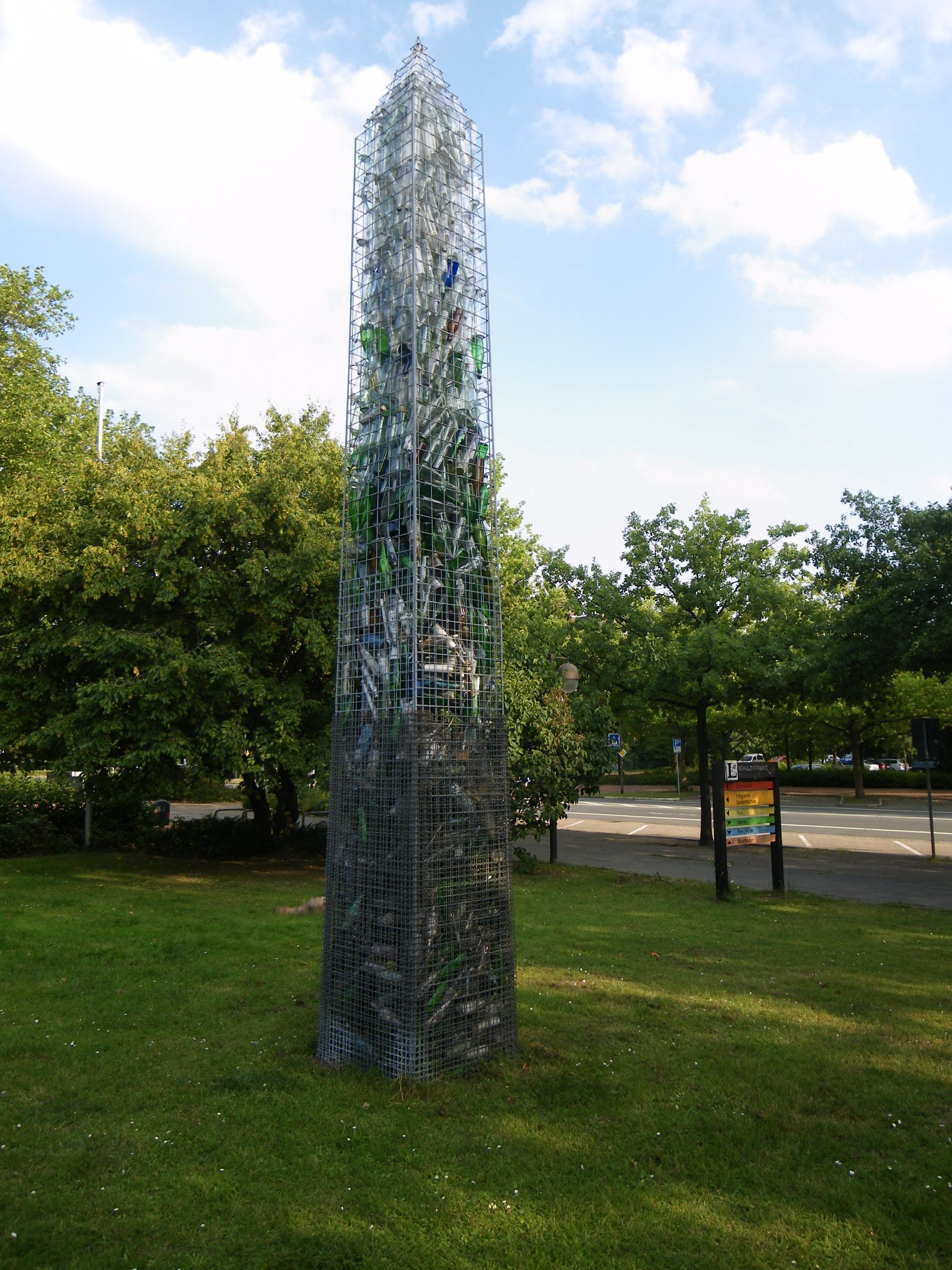 Public Art in Langenhagen: "Obelisk" by Michael Deiml, 1990-2000